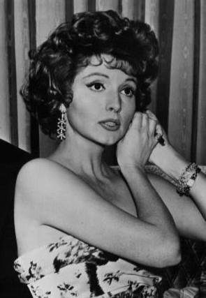 Photo of George Grizzard as Roger Shacklesforth and Patricia Barry as Leila from The Twilight Zone episode The Chaser.